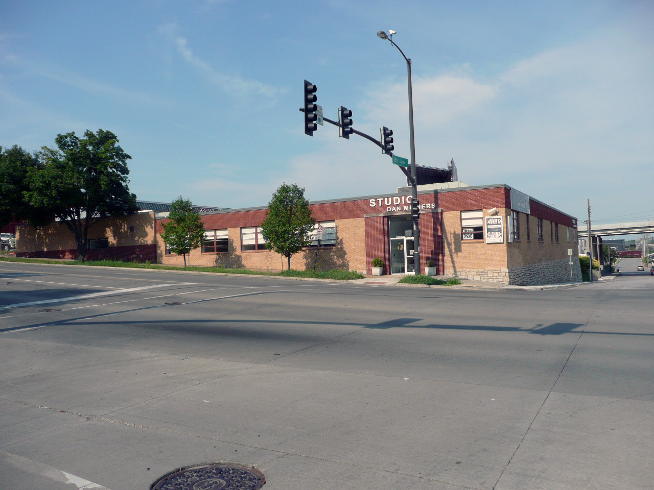 E. R. Squibb and Sons Building